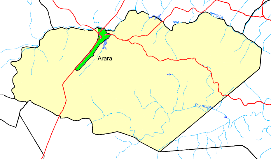 Map of Arara city